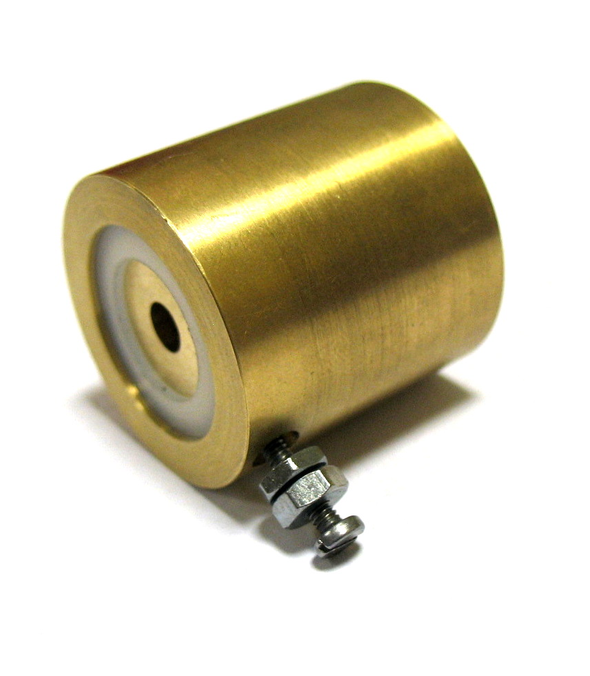 front view of a Faraday-cup with an electron-supressor plate in front